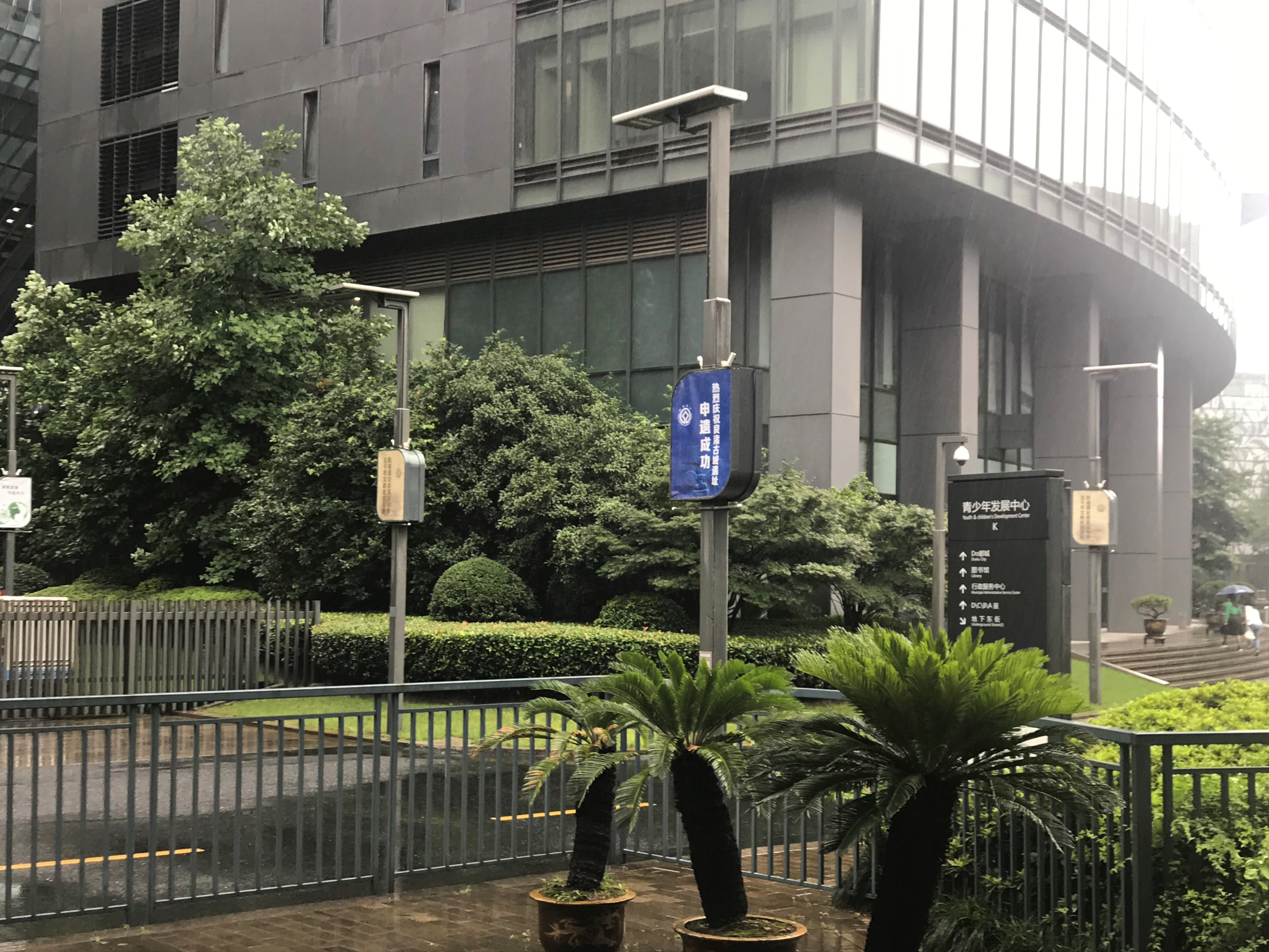 201907 Sign for the Celebration of Liangzhu Site at Hangzhou Government